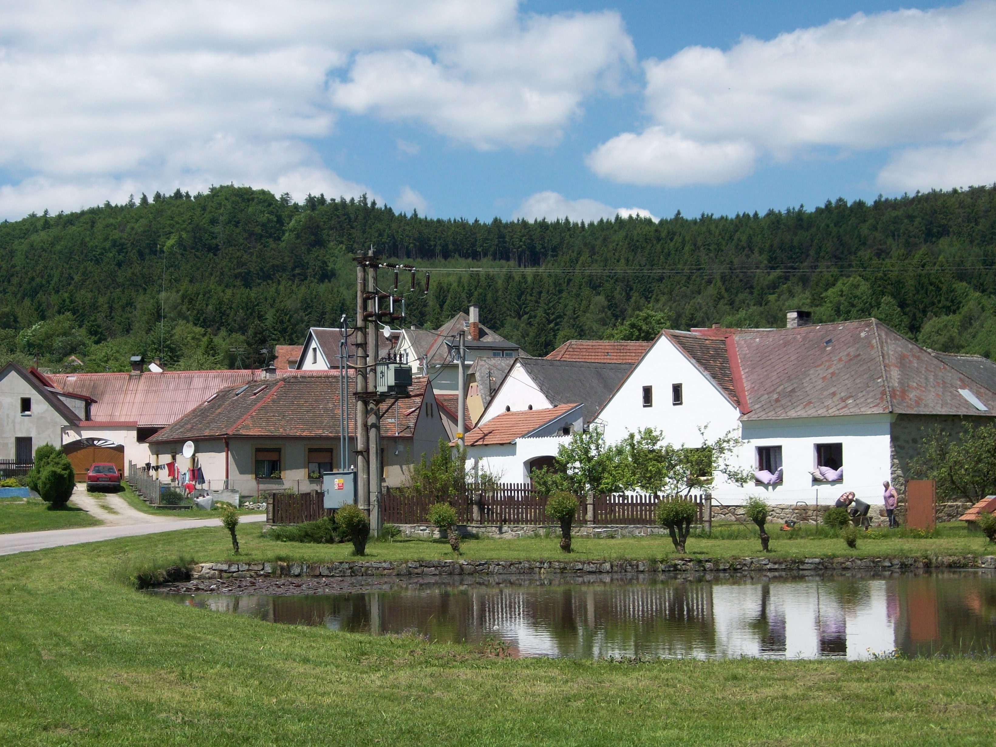 Lhotka (Jihlava District) Česky: Lhotka (okres Jihlava)